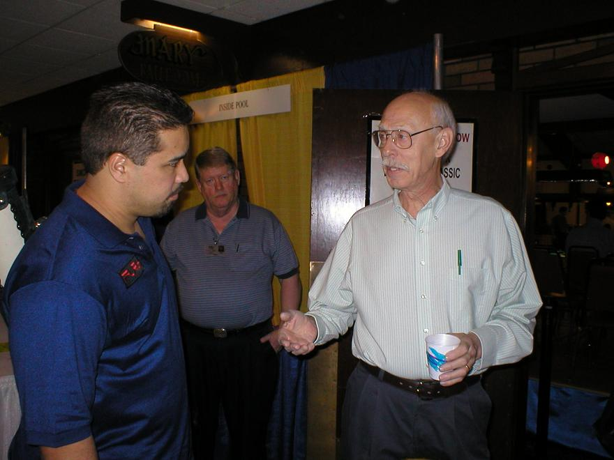 This is my own personal photograph and can be released to public domain.